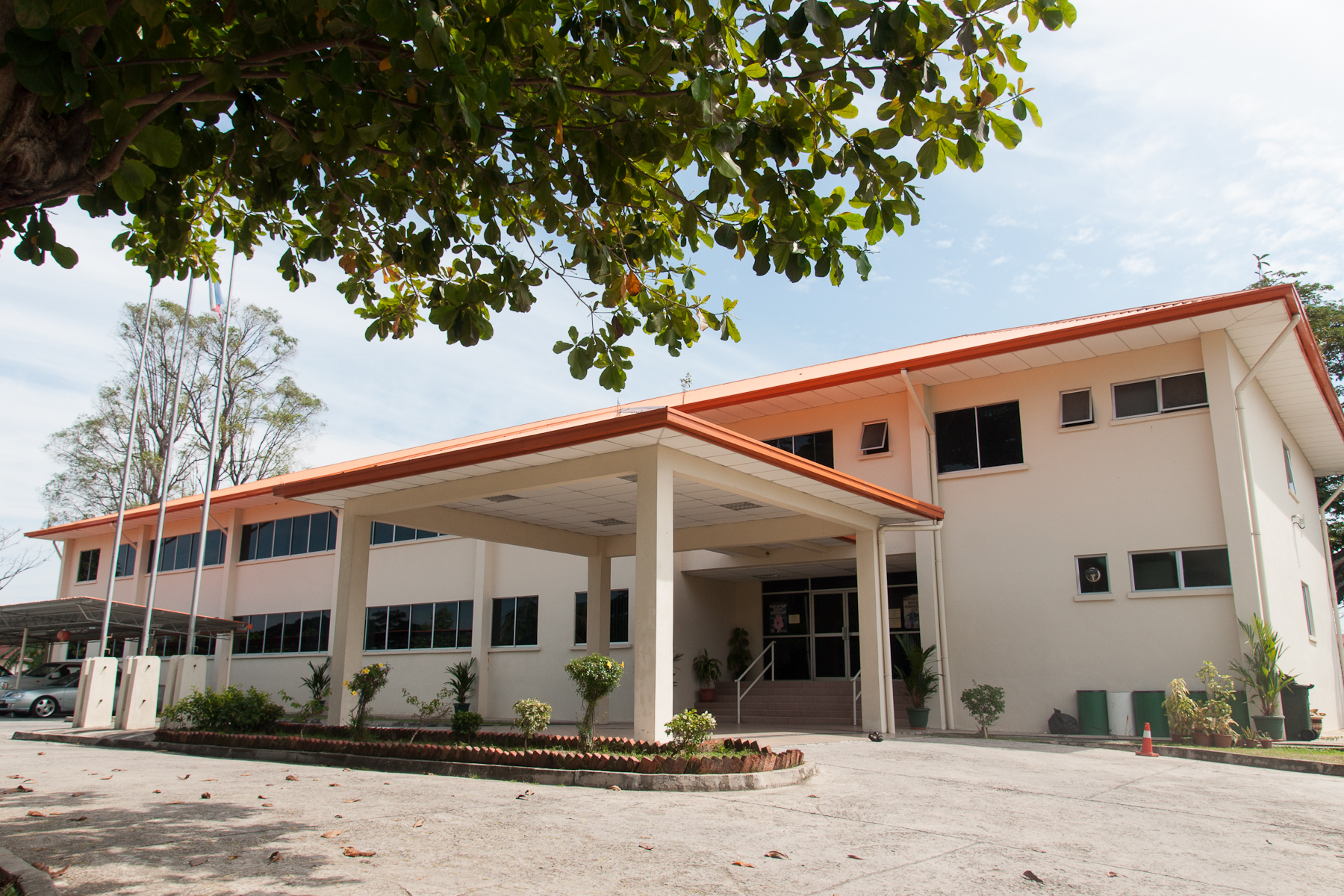 District Office Tuaran (Pejabat Daerah Tuaran) - Office of the District Officer